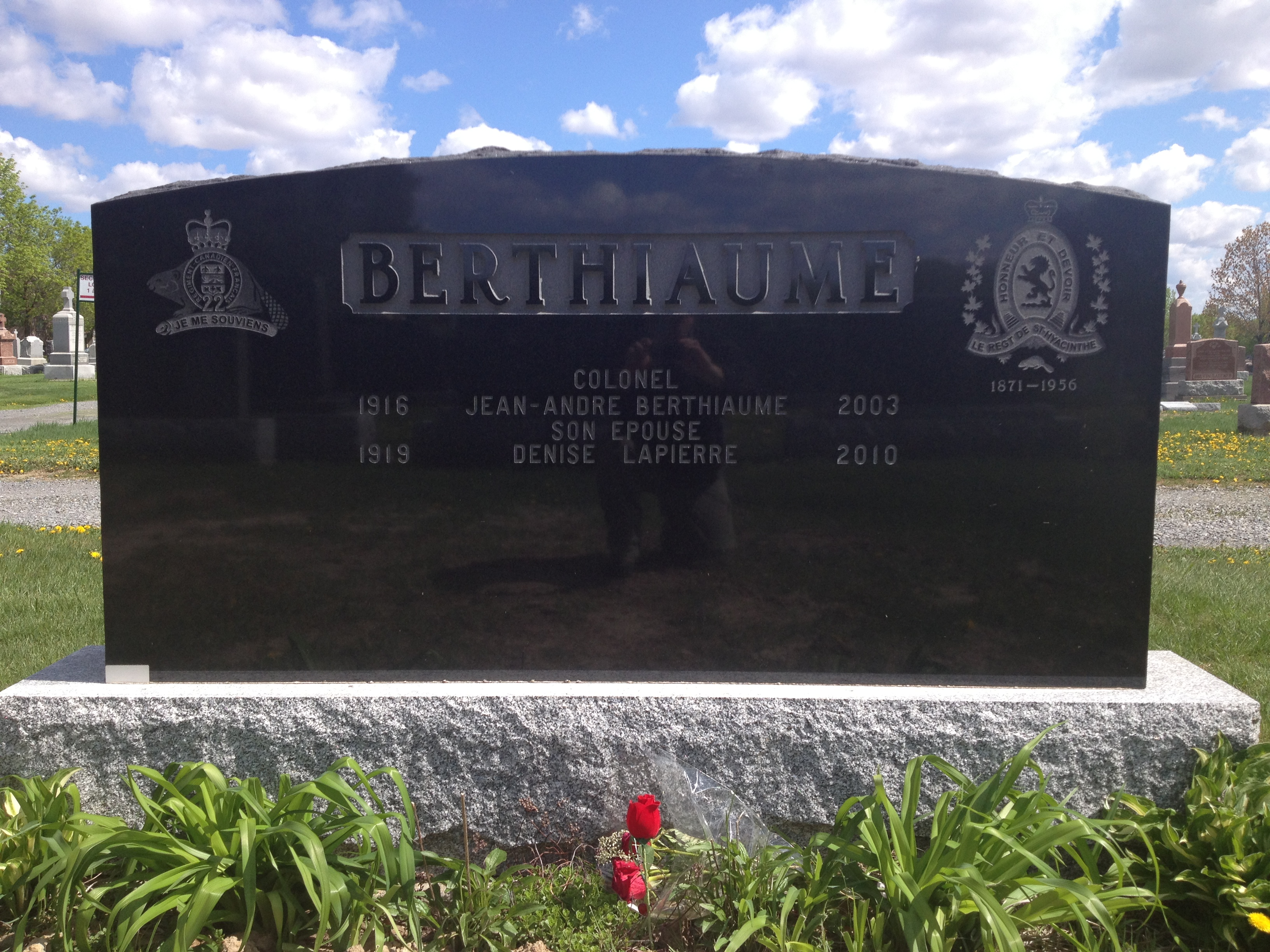 Headstone in the St-Hyacinthe's Cathedrale parish of Colonel JA Berthiaume and his wife, Denise Lapierre